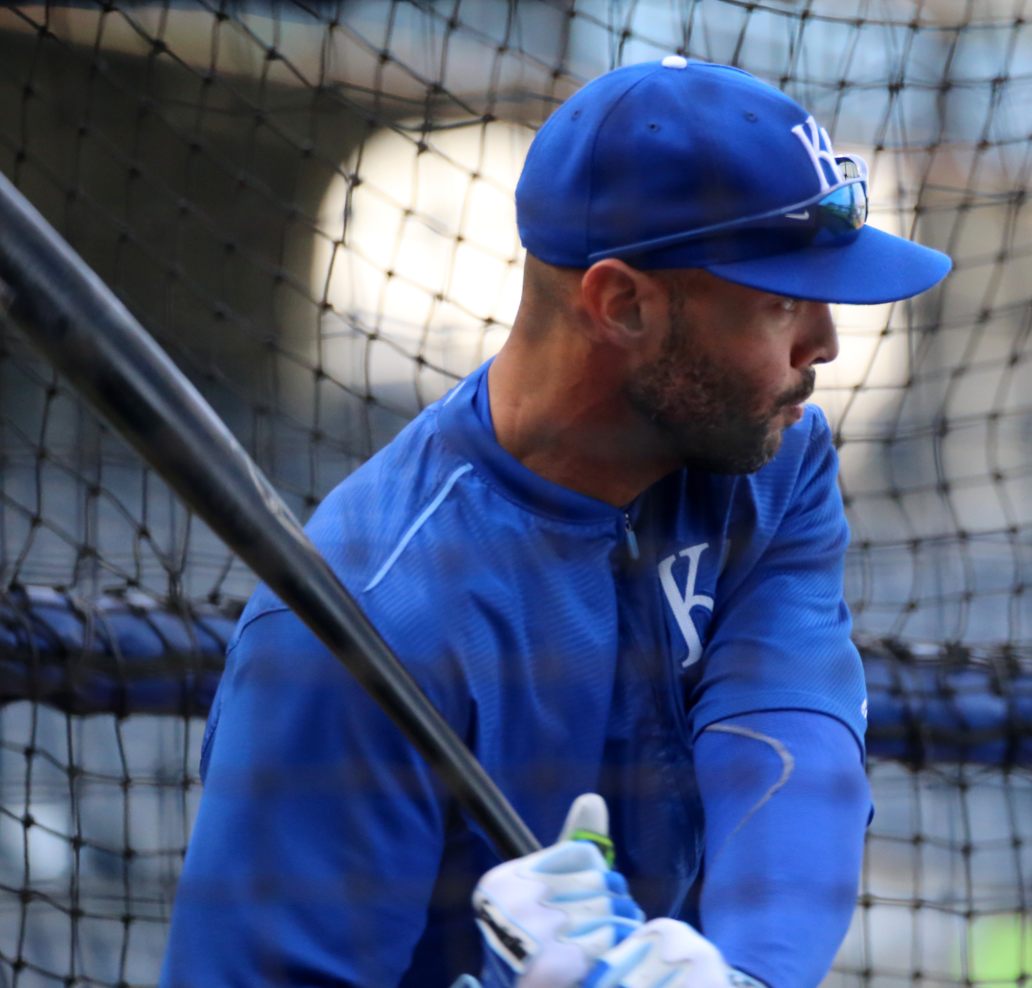 Alex Rios takes batting practice.